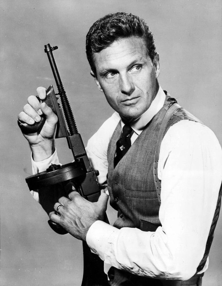 Photo of Robert Stack as Eliot Ness from the television program, The Untouchables.